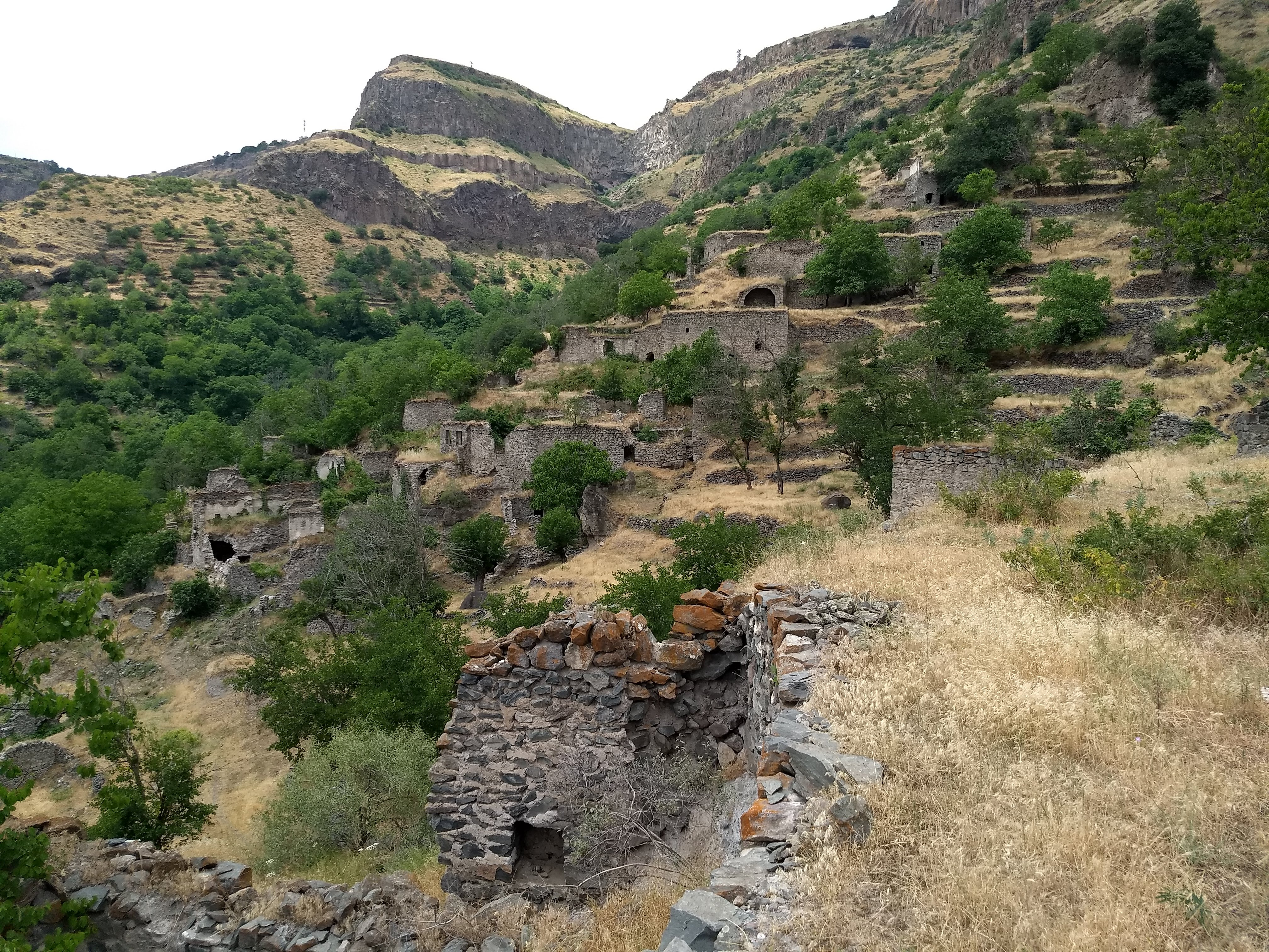 Hin Khot